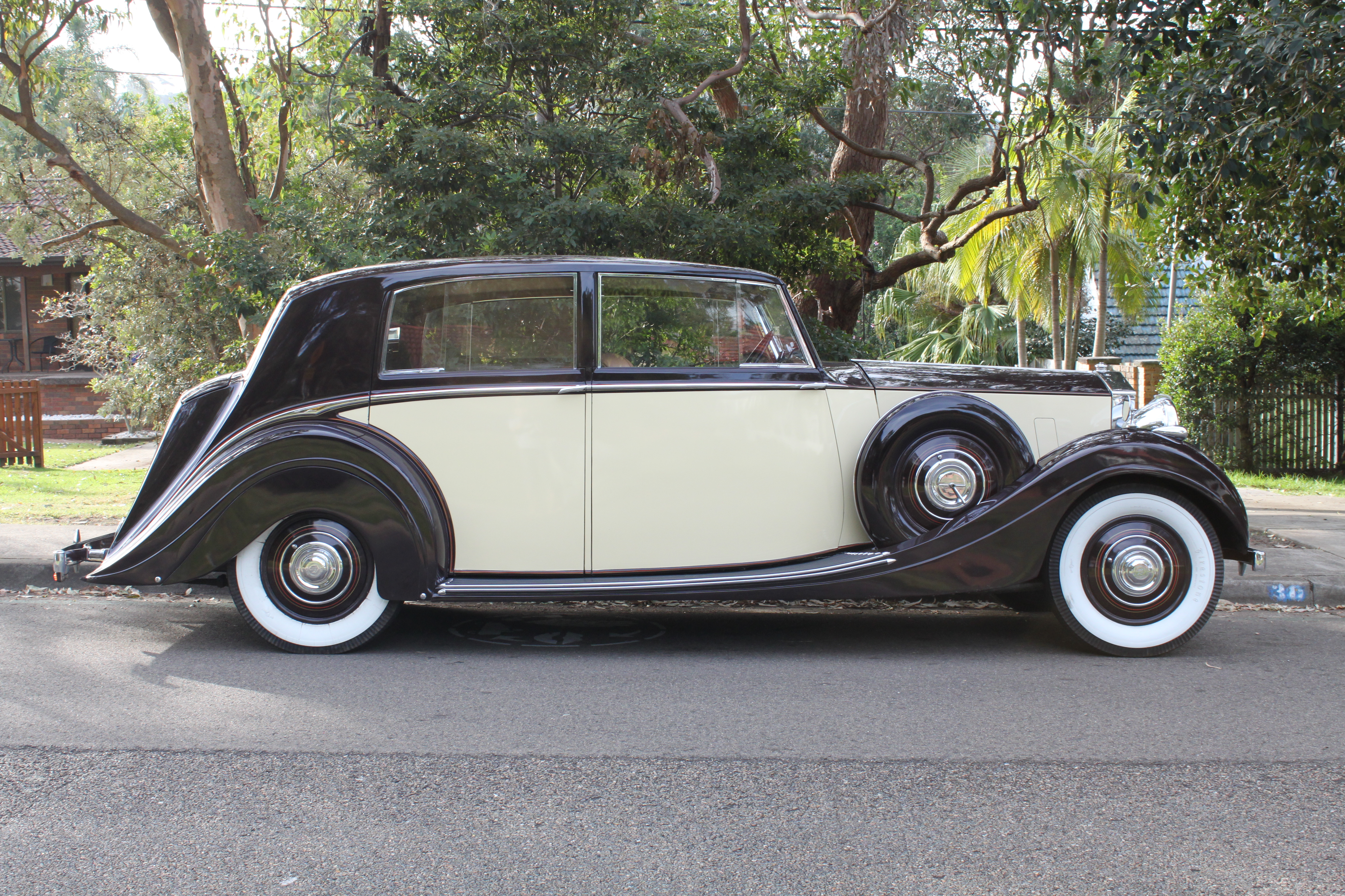 1938 Rolls Royce Wraith